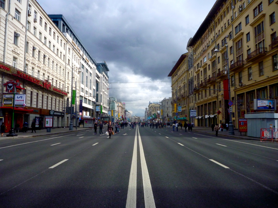 "Day of the City", Moscow's 864th anniversary (День города Москвы) / Tverskaya St, bdlds. 25 (left) and 24